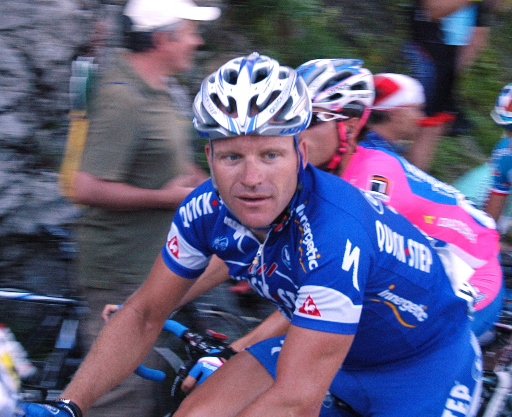 Steven de Jongh at stage 7 of the Tour de France 2007 on the Col de la Colombière.